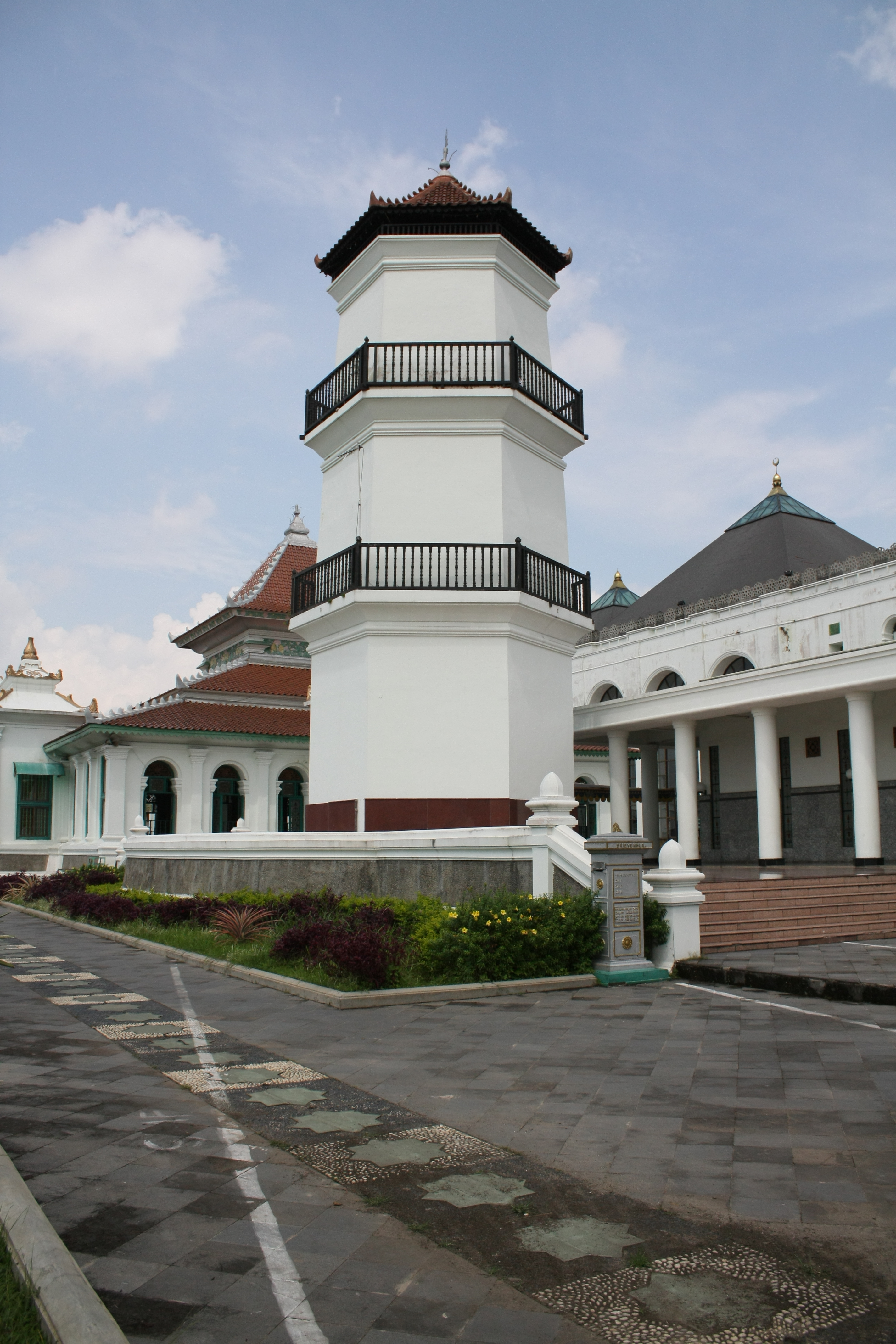 Palembang Great Mosque. The tower